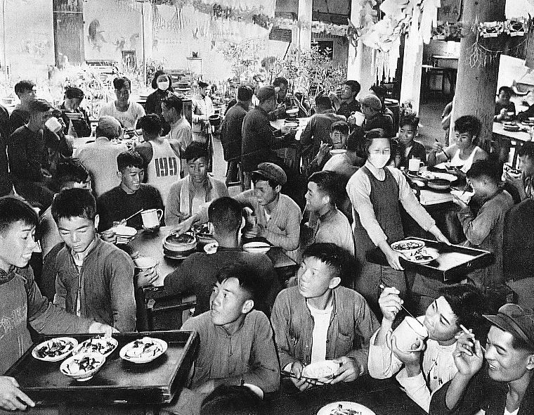 People's commune canteen